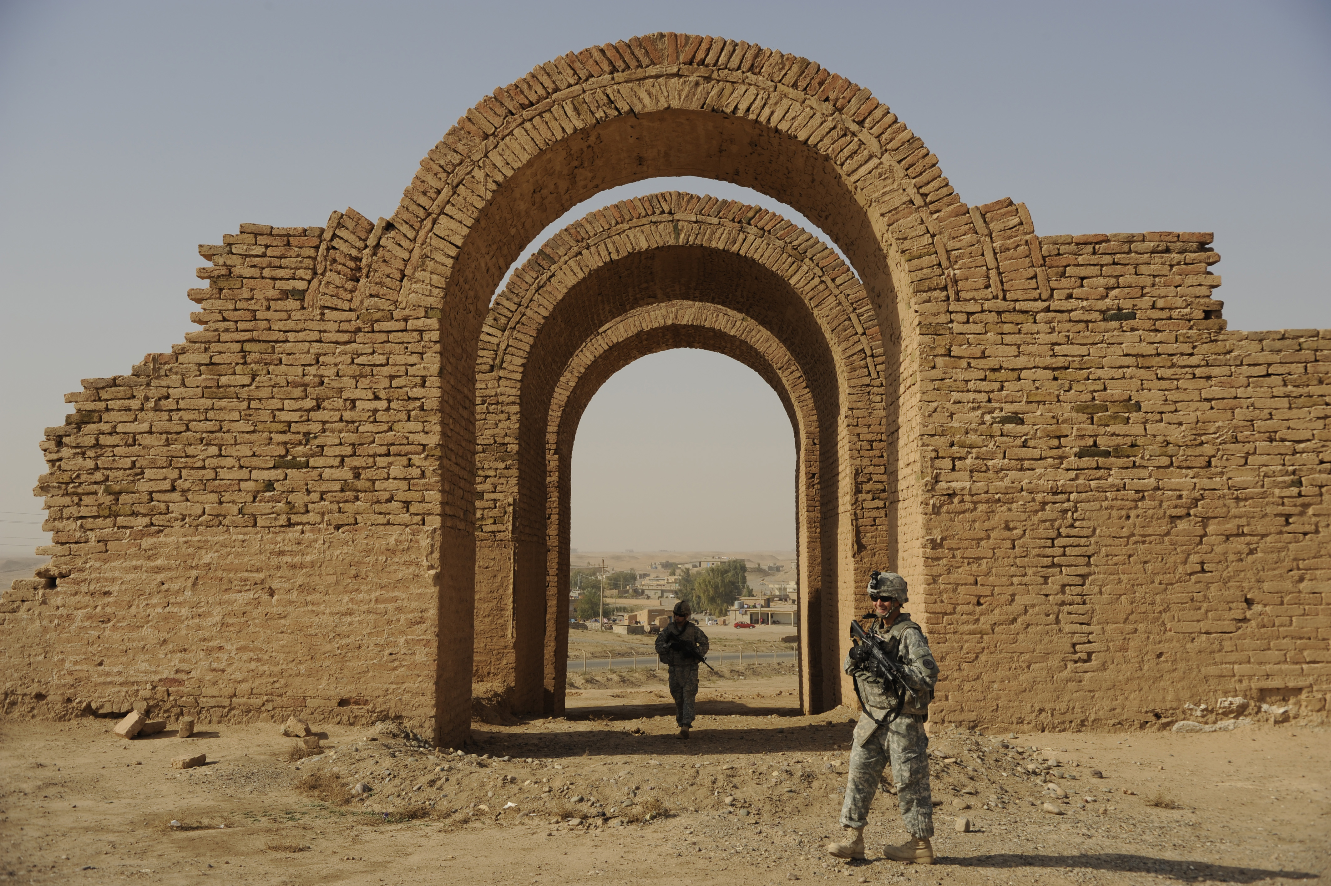 U.S. Soldiers from Crazy Horse Troop, 1st Squadron, 3rd Armored Cavalry Regiment provide security for the Provincial Reconstruction Team and representatives of United Nations Educational, Scientific, and Cultural Organization visiting the ancient city of Ashur, the site is now known as Qalat Shergat, Iraq, Nov. 21 2008. Ashur is one of three areas in Iraq that is a World Heritage site.